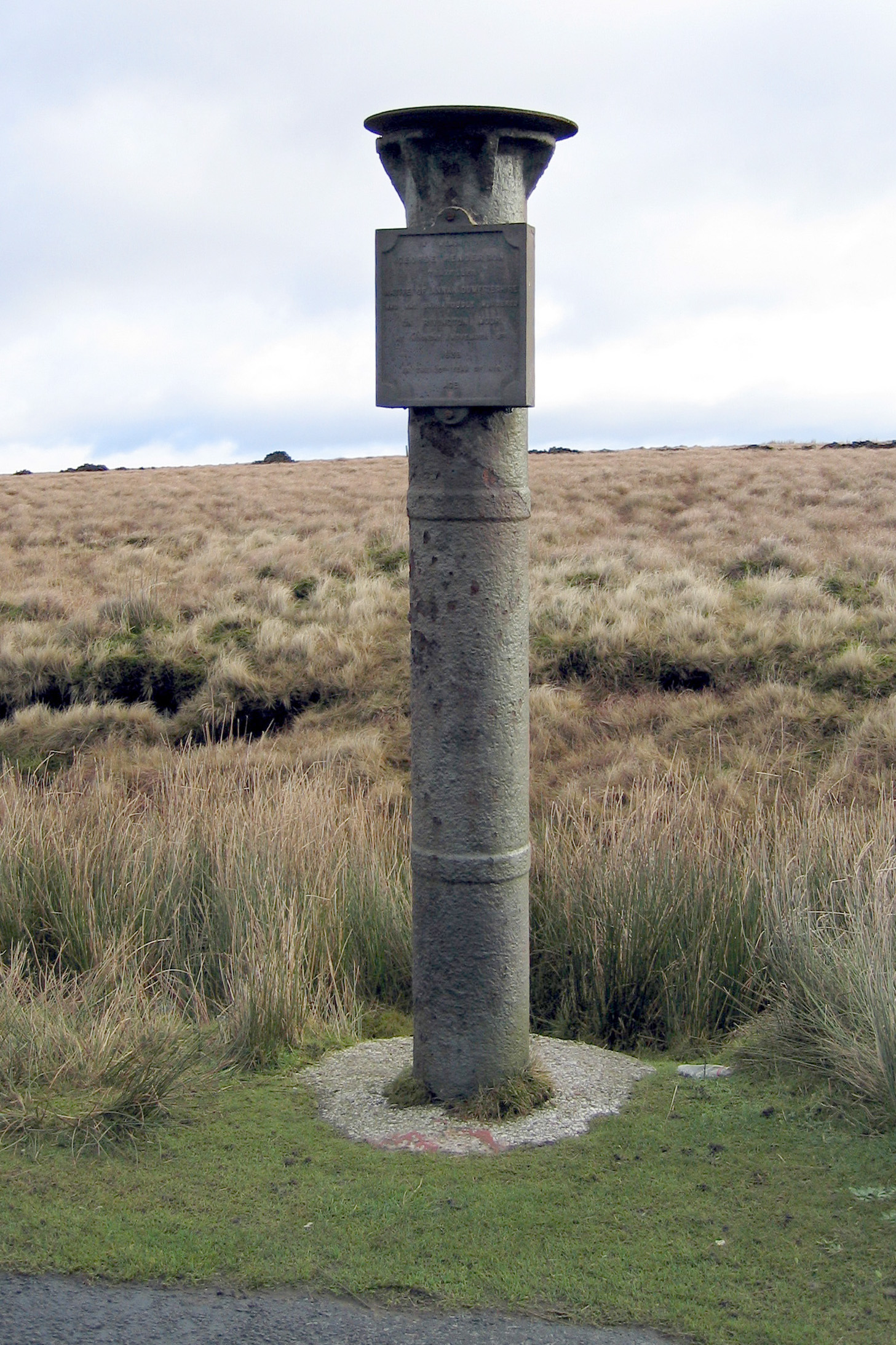 Scotsman's Stump, Winter Hill, a memorial to George Henderson, a Scottish merchant, who was murdered on 9 November 1838 while walking over Winter hill